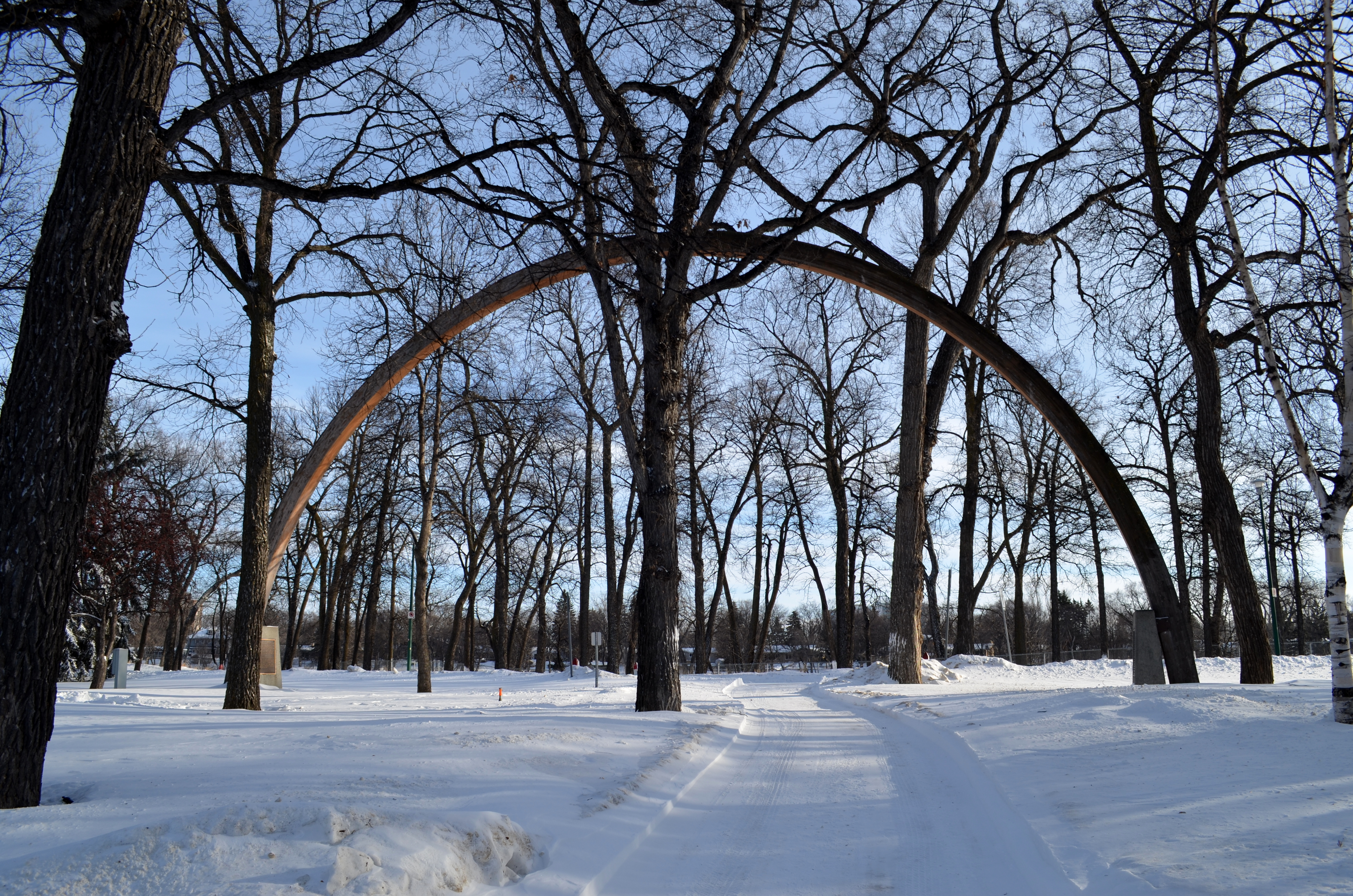 Laminated timber arch replica of original roof support of Rainbow Stage in Kildonan Park in Winnipeg Manitoba